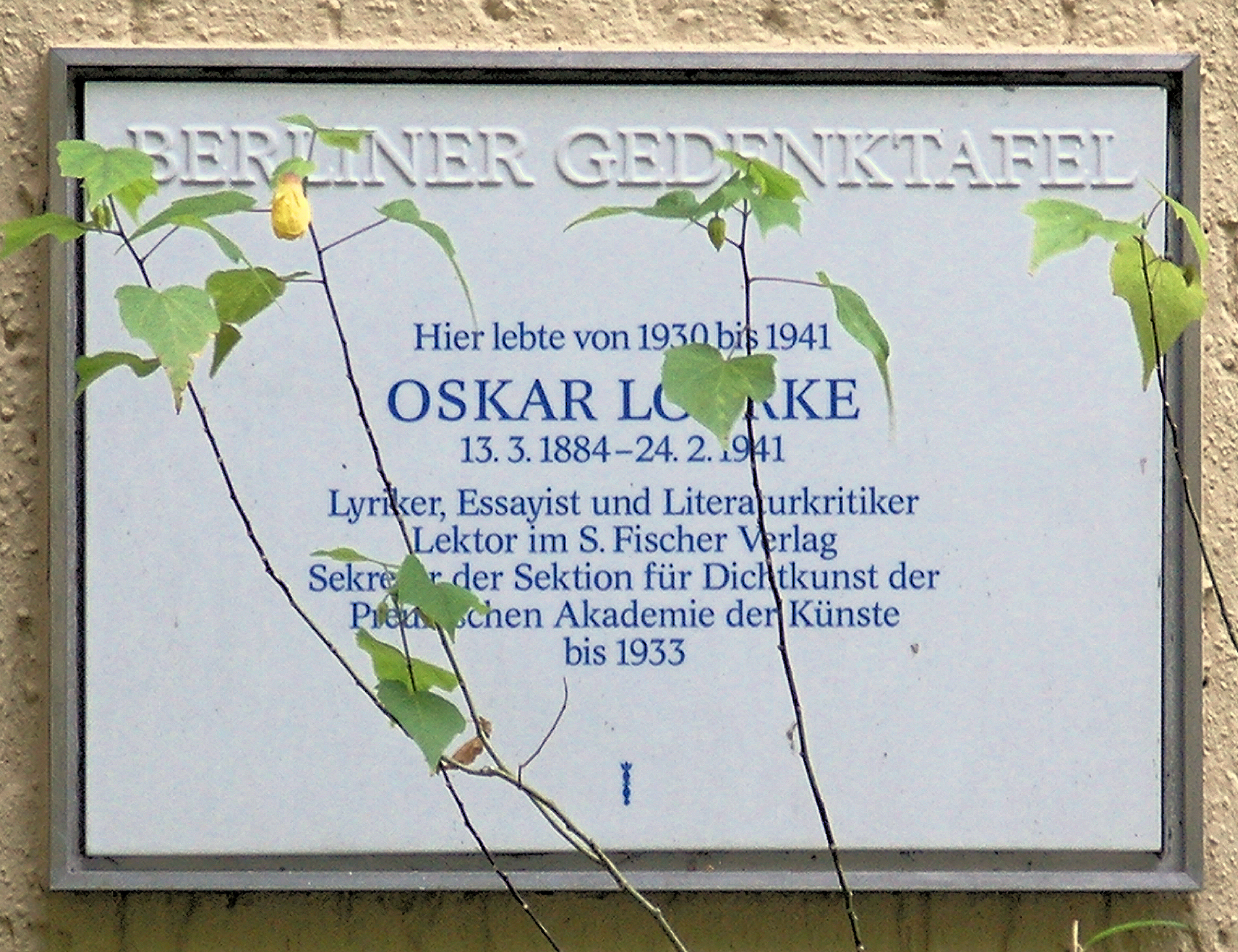 Berlin memorial plaque, Oskar Loerke, Kreuzritterstraße 8, Berlin-Frohnau, Germany